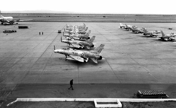 U.S. Air Force North American F-100D Super Sabres assigned to the 31st Tactical Fighter Wing on the ramp at George AFB, California (USA), in 1961.